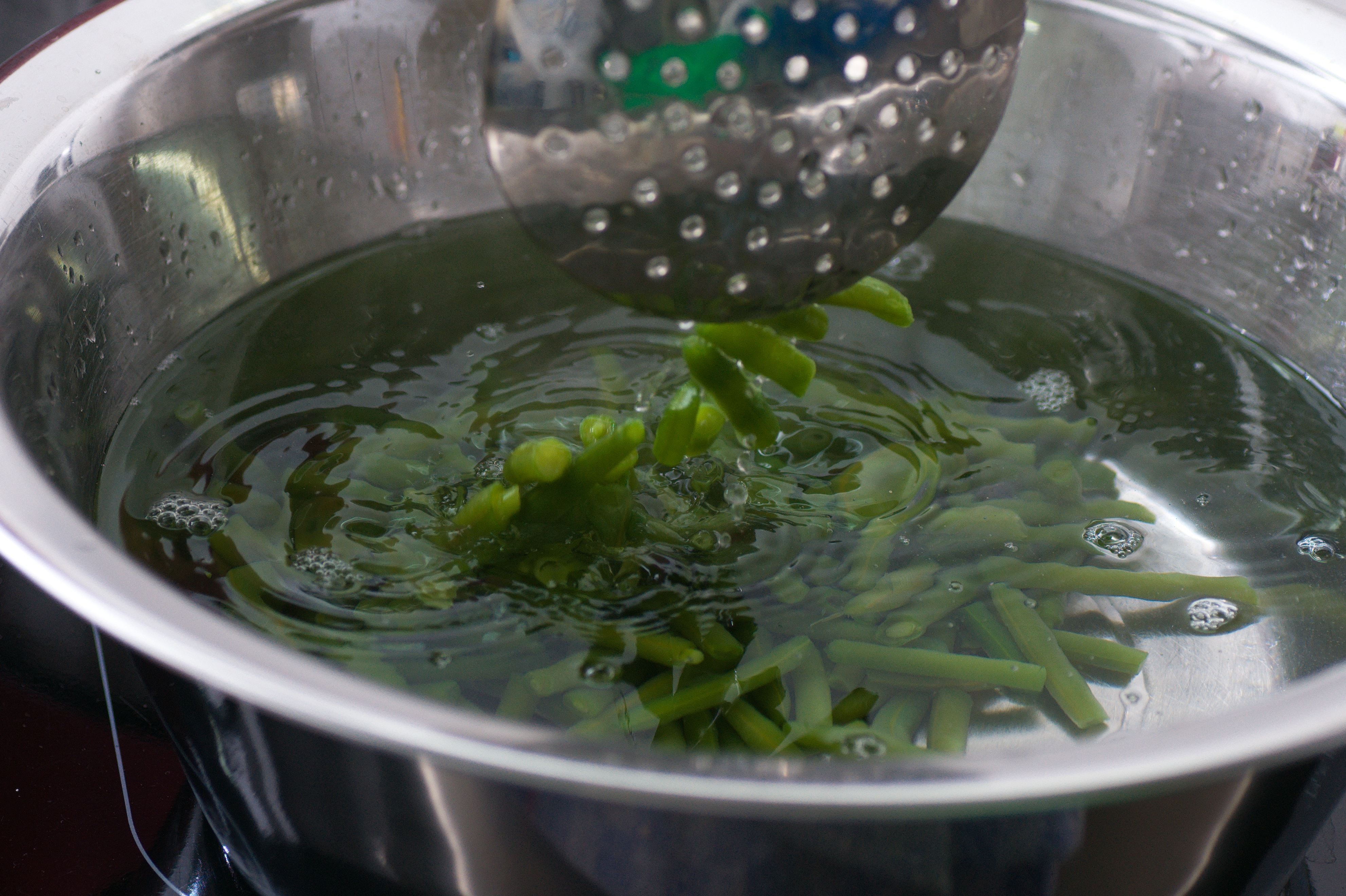 Plunging green beans in cold water